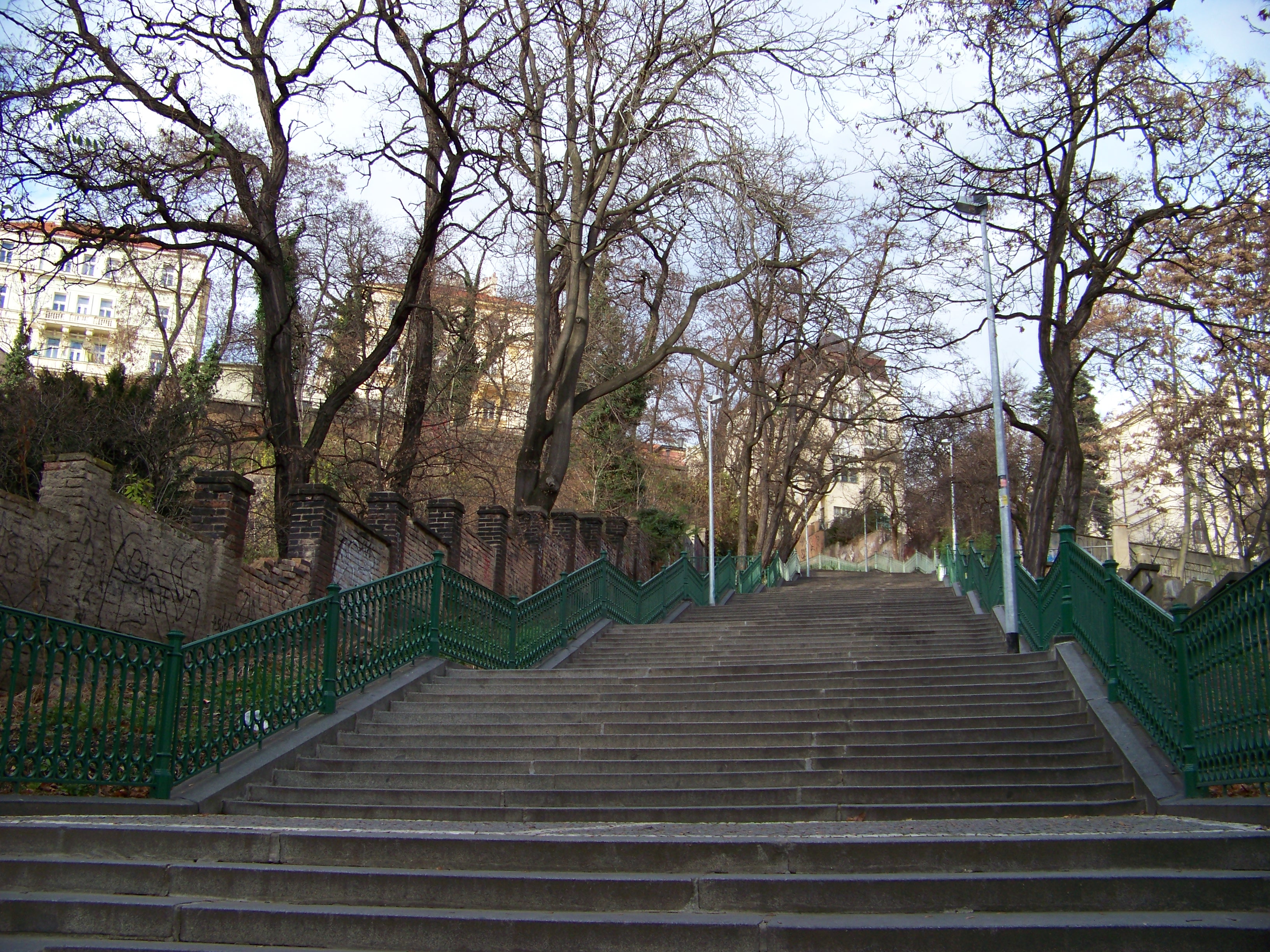 Prague-Vinohrady, the Czech Republic. Nusle Strairs, from Pod Nuselskými schody street. - OpenStreetMap(Info)